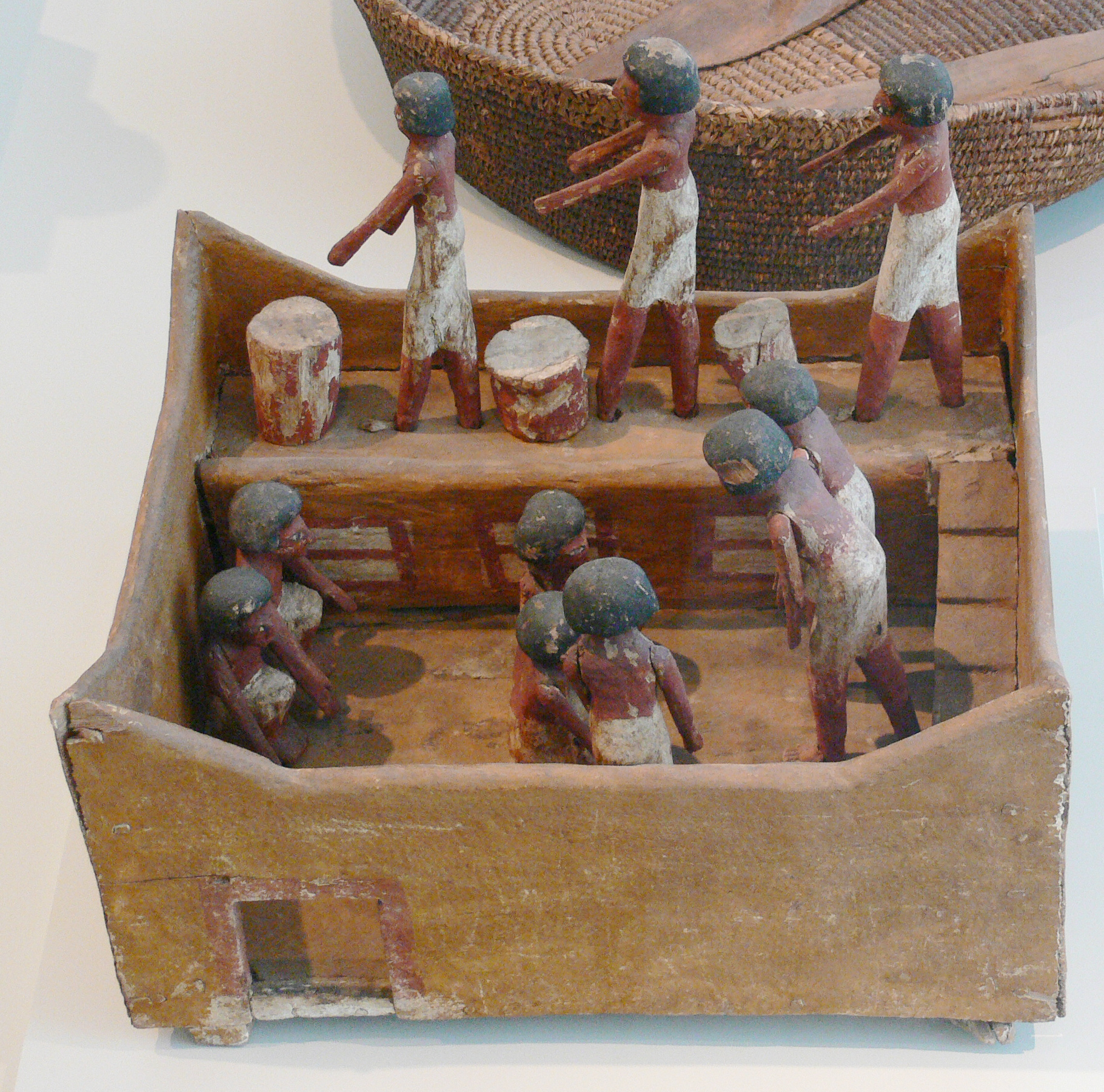 Model of a granary; wood; 12th dynasty, c. 1800 BC. Egyptian Museum Berlin, Inv. 12548.